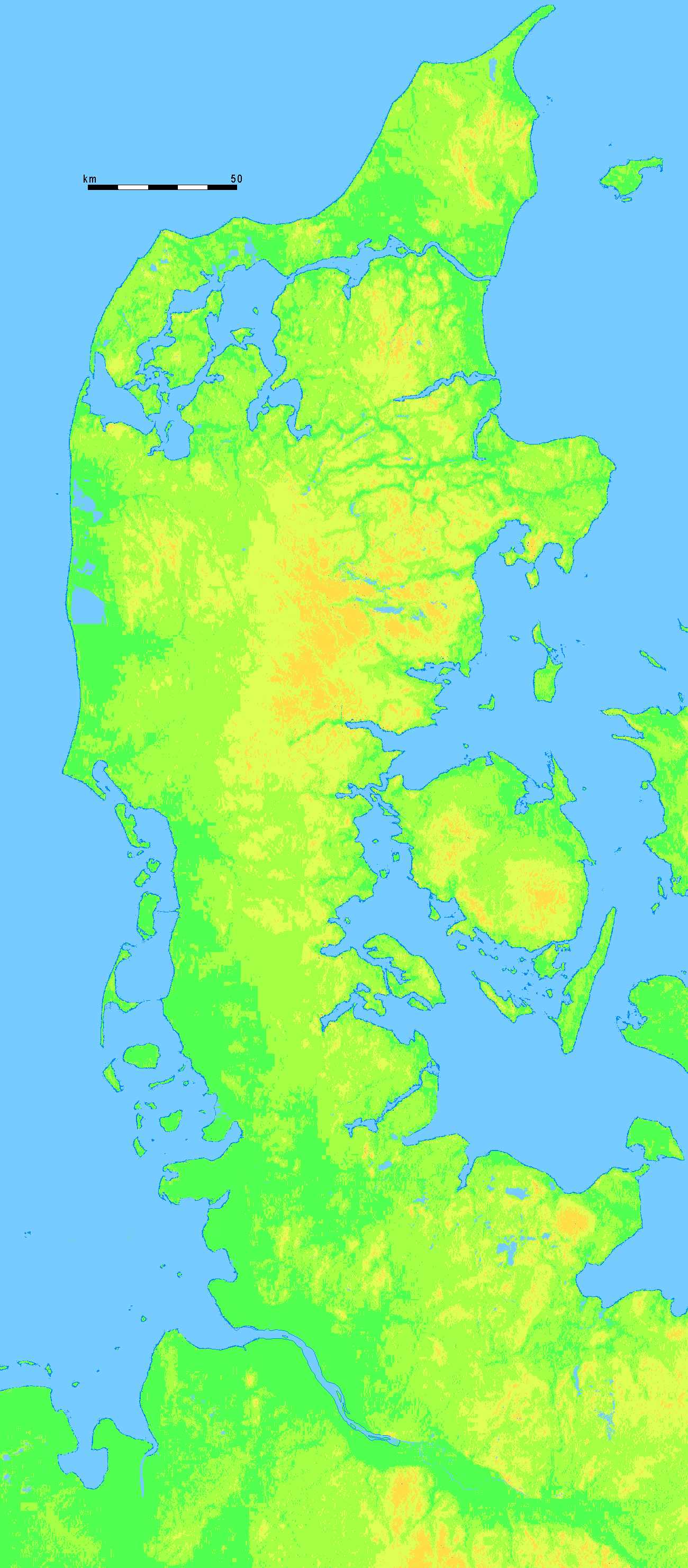 Basic physical map of Jylland, Fyn, and Schleswig-Holstein, adaption of the physical map (coasts and levels) and the satellite photo (lakes and estuars). The rivers have not been taken over, because in the source they are partly wrong or a bit dislocated.